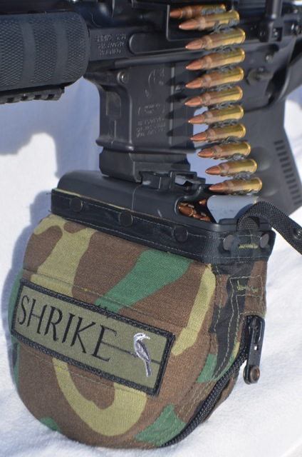 A photo of a Shrike 556 belt-fed upper installed on an M4 lower with a SlideFire stock. A 200 round M249 ammunition belt bag is attached, to clearly show the belt feeding arrangement. Other information Photo of my personally owned Shrike with a 200 round belt bag attached.